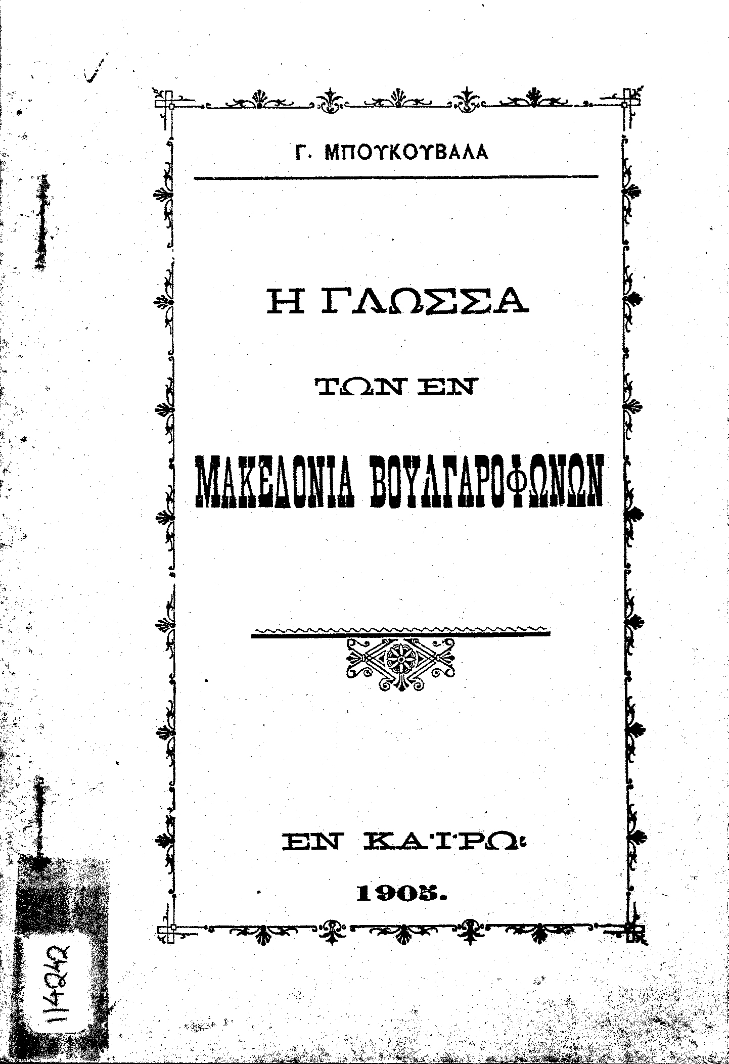 Cover of Boukouvalas book dictionary